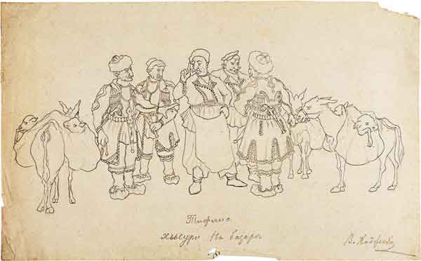 Khevsurians in Tiflis. 1917.